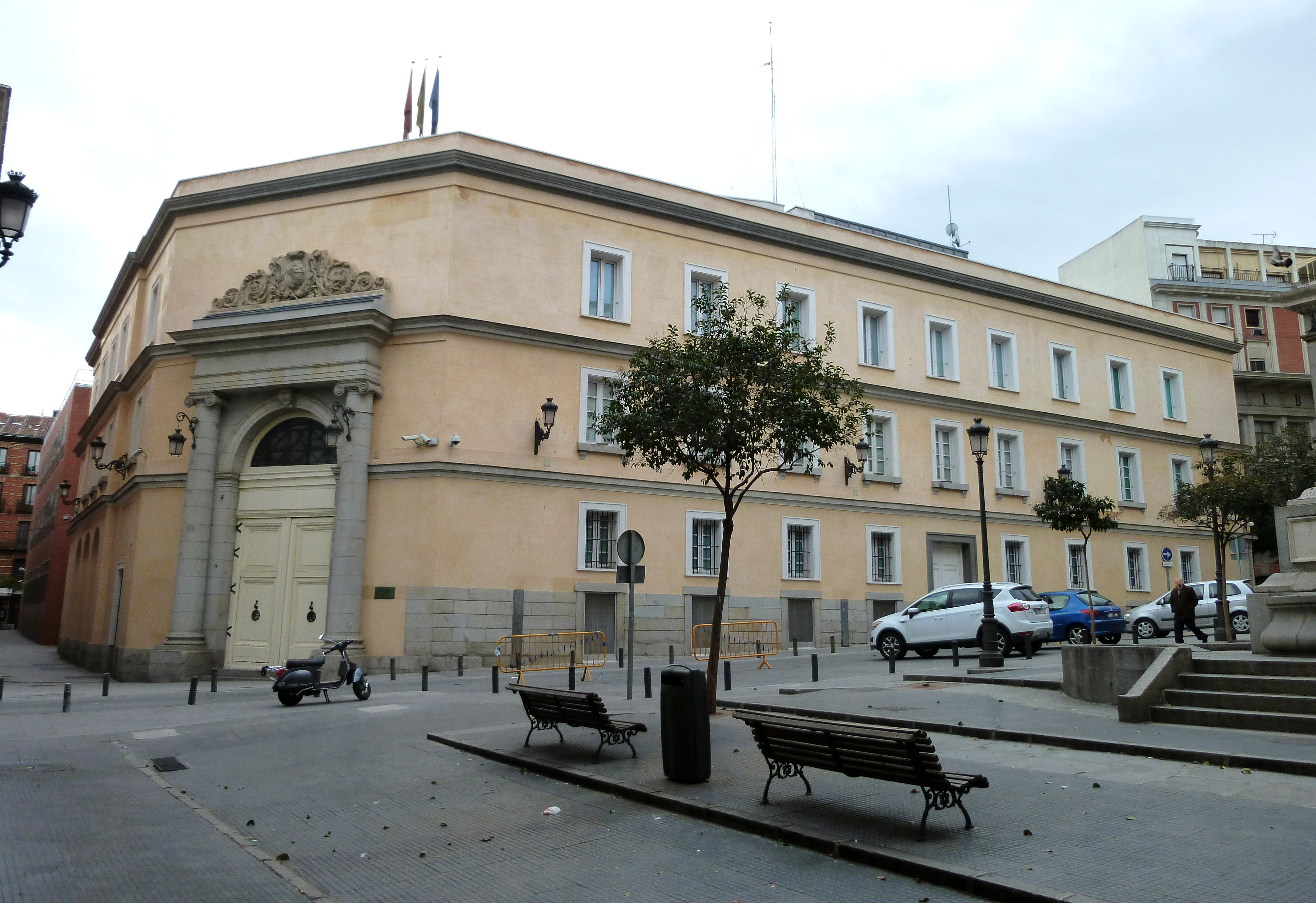 Façade of Real Casa de Postas in Madrid (Spain).